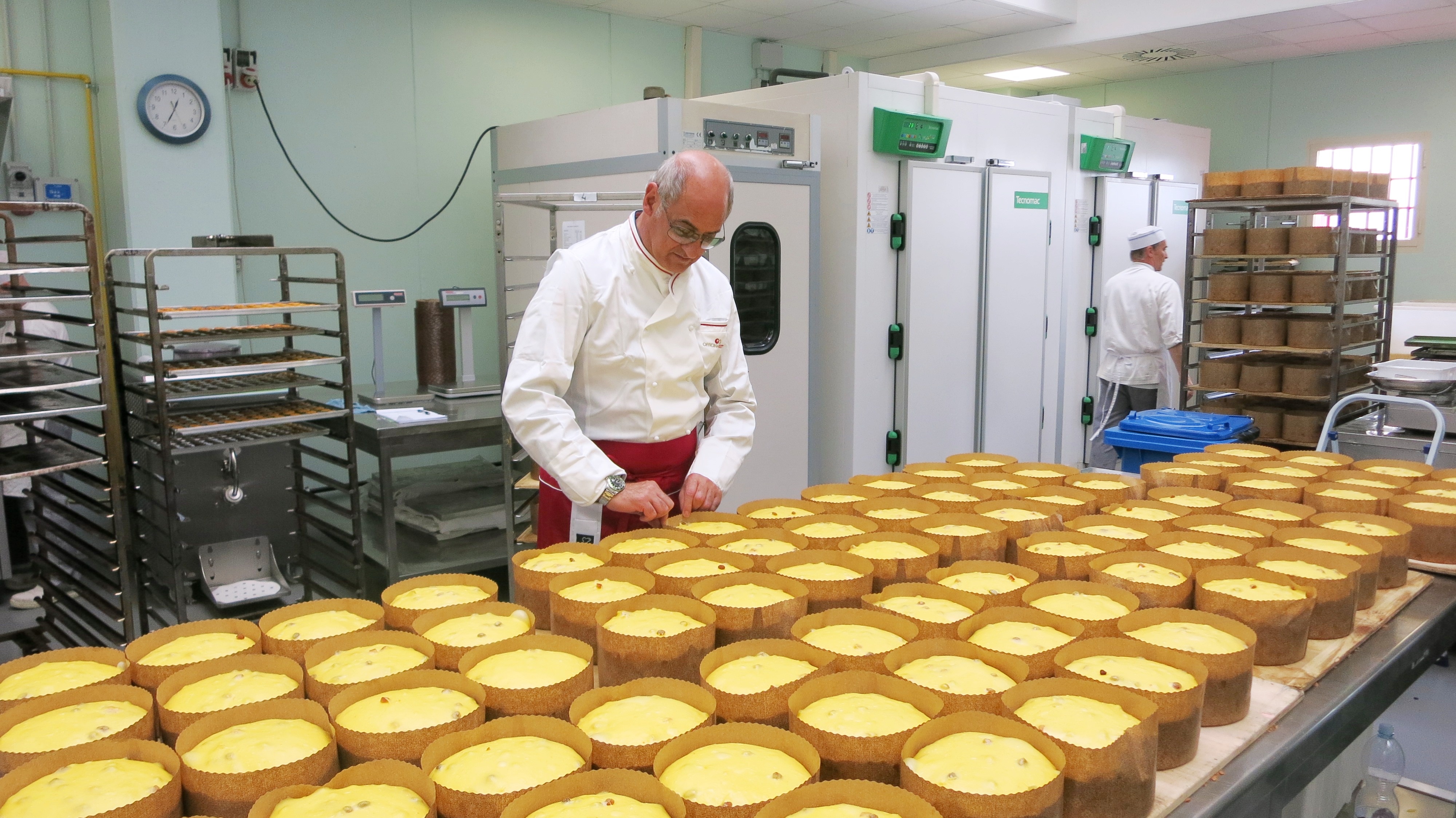 Preparation of panettone in prison kitchen of "Due Palazzi di Padova" in Padova, Italy.